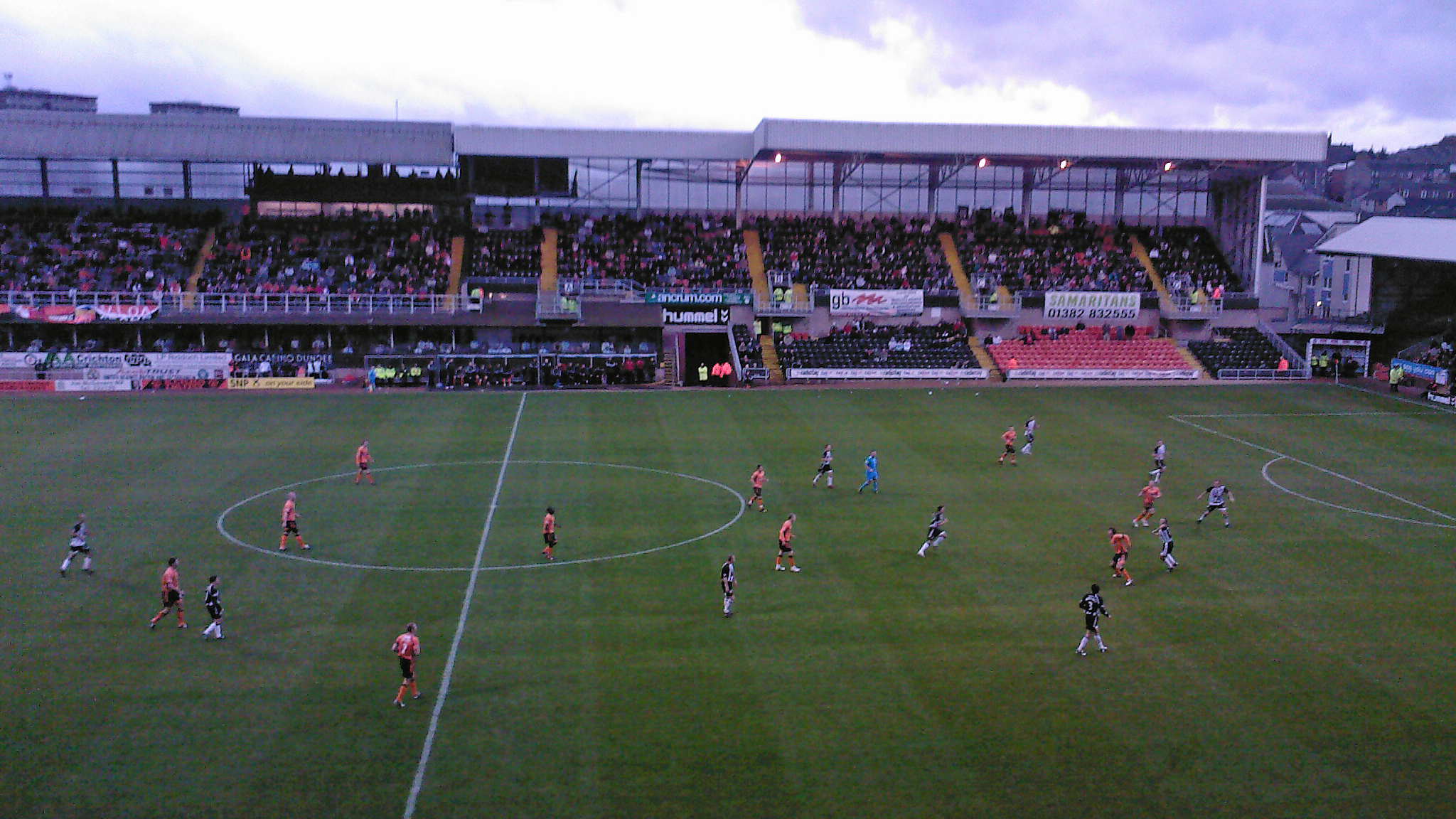 Action during the 76th minute of the Scottish Premier League match between Dundee United and St Mirren at Tannadice Park, Dundee on 25th October 2008. United went on to score two late goals to win 2-0.